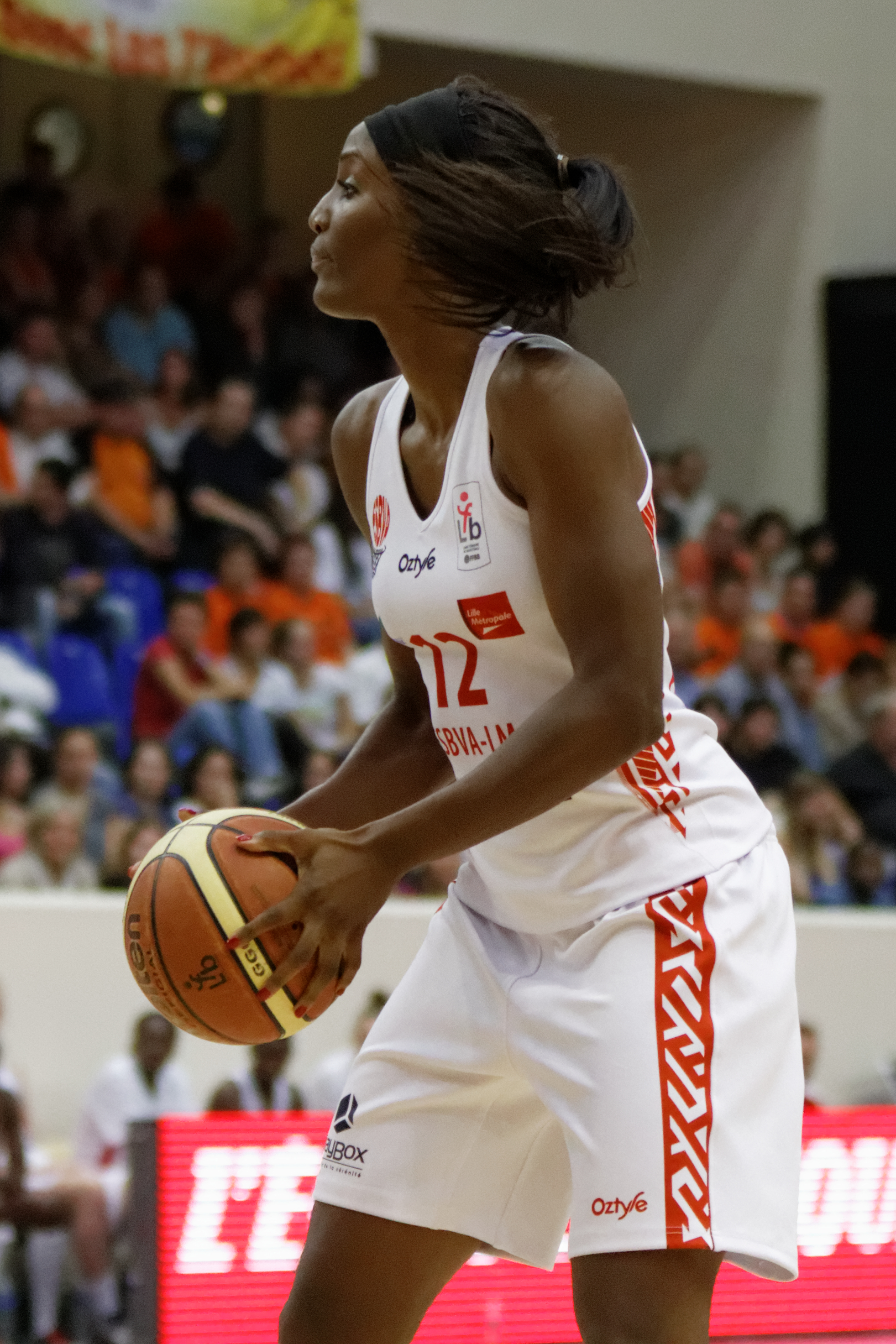 Open LFB, Villeneuve d'Ascq-Basket Landes, October 5th, 2013.